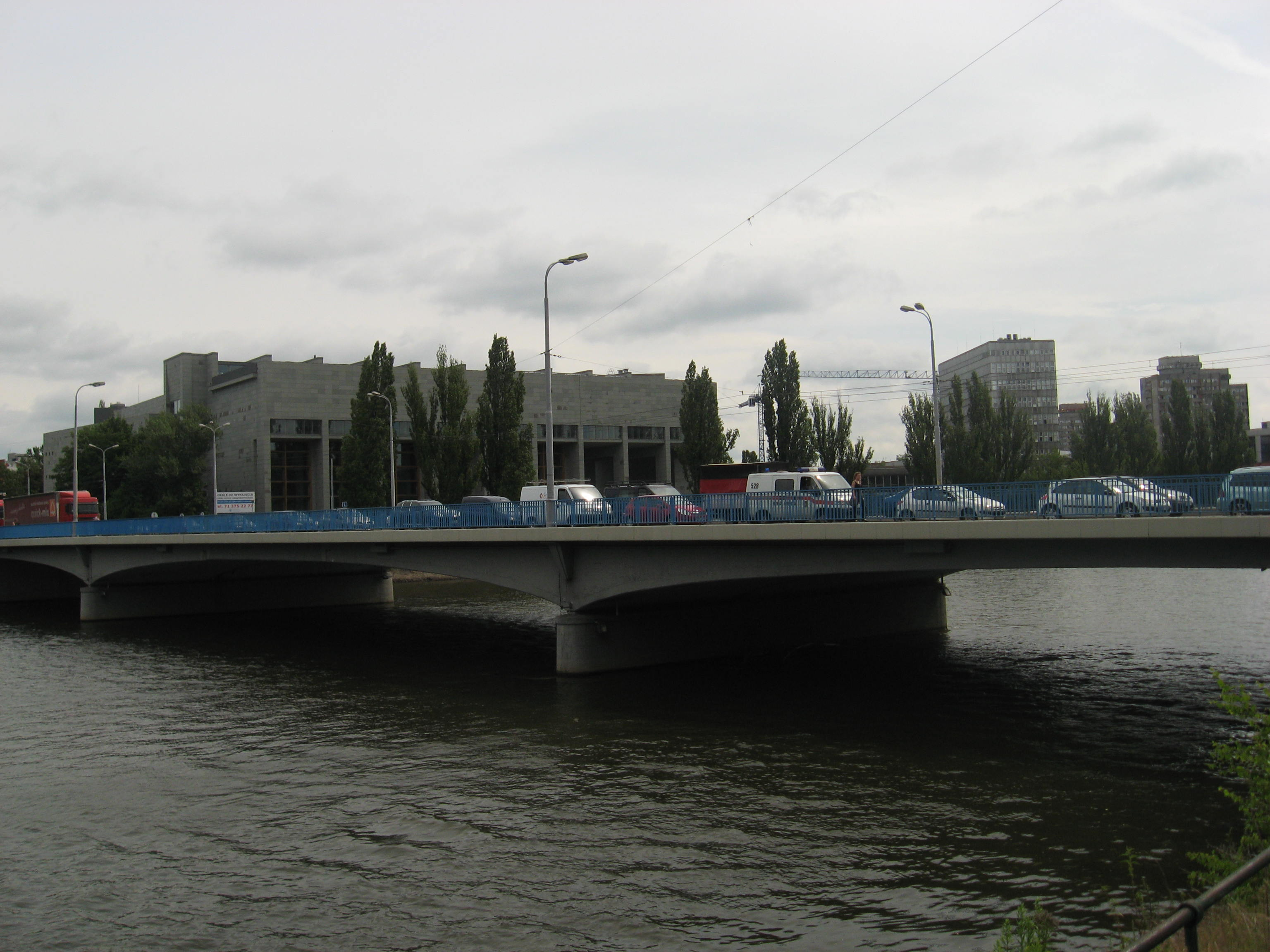 Pokoju Bridge in Wroclaw.